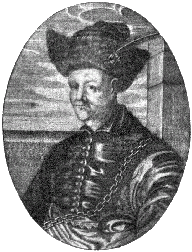 Lodovico Isolani (Johann Ludwig Hektor Graf von Isolani; 1586–1640), Croatian-Austrian general